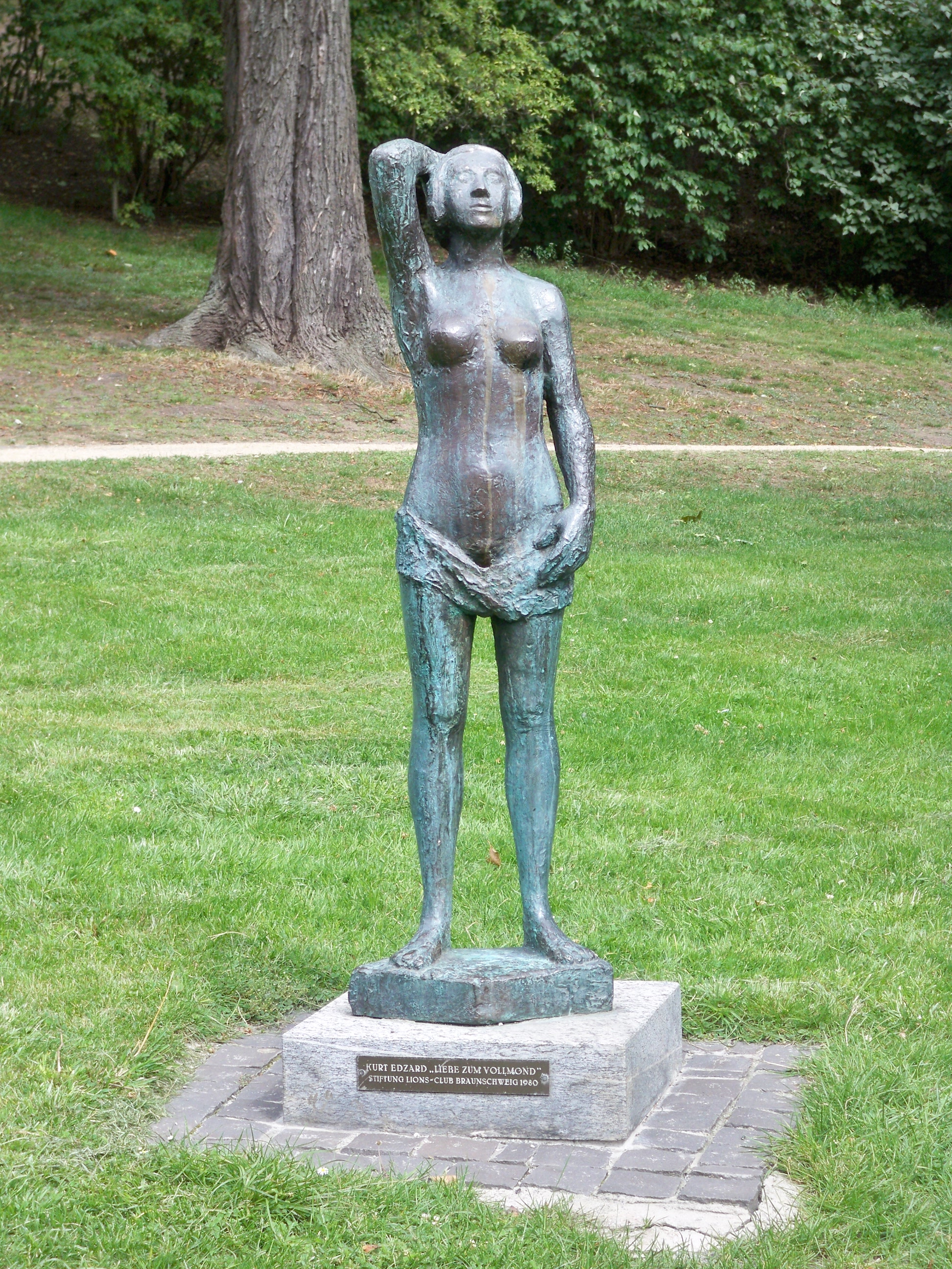 Brunswick, Germany, Theaterpark with statue "Die Stehende - Liebe zum Vollmond" (The Standing One - Love of the full moon) by Kurt Edzard